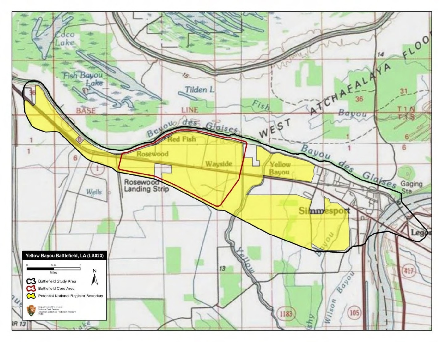 Map of battlefield core and study areas. The ABPP revised the Study Area, extending the boundary west to include the Federal retreat from Moreauville and reducing the boundary around the Yellow Bayou crossing, based on the location of swampy ground that restricted movement at that point. After a close review of The War of the Rebellion: a Compilation of the Official Records of the Union and Confederate Armies, the ABPP relocated the Core Area west of the Yellow Bayou, to include the area where the fighting actually took place.